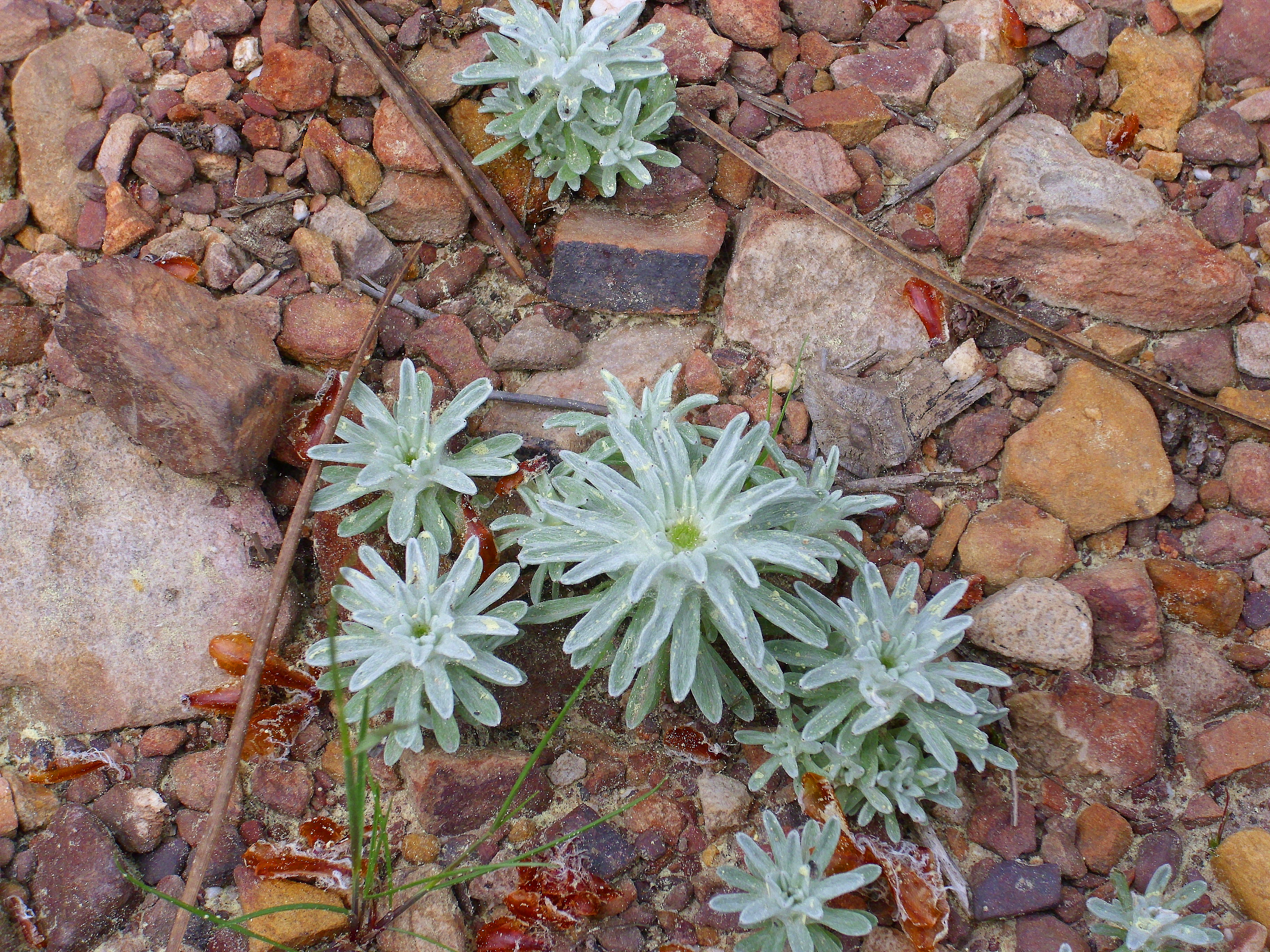 Evax carpetana habitat, Sierra Madrona, Spain